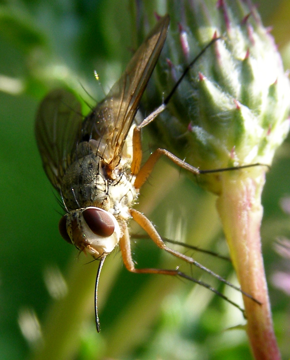 Tachinid fly Prosena siberita (Diptera: Tachinidae) on a thistle.